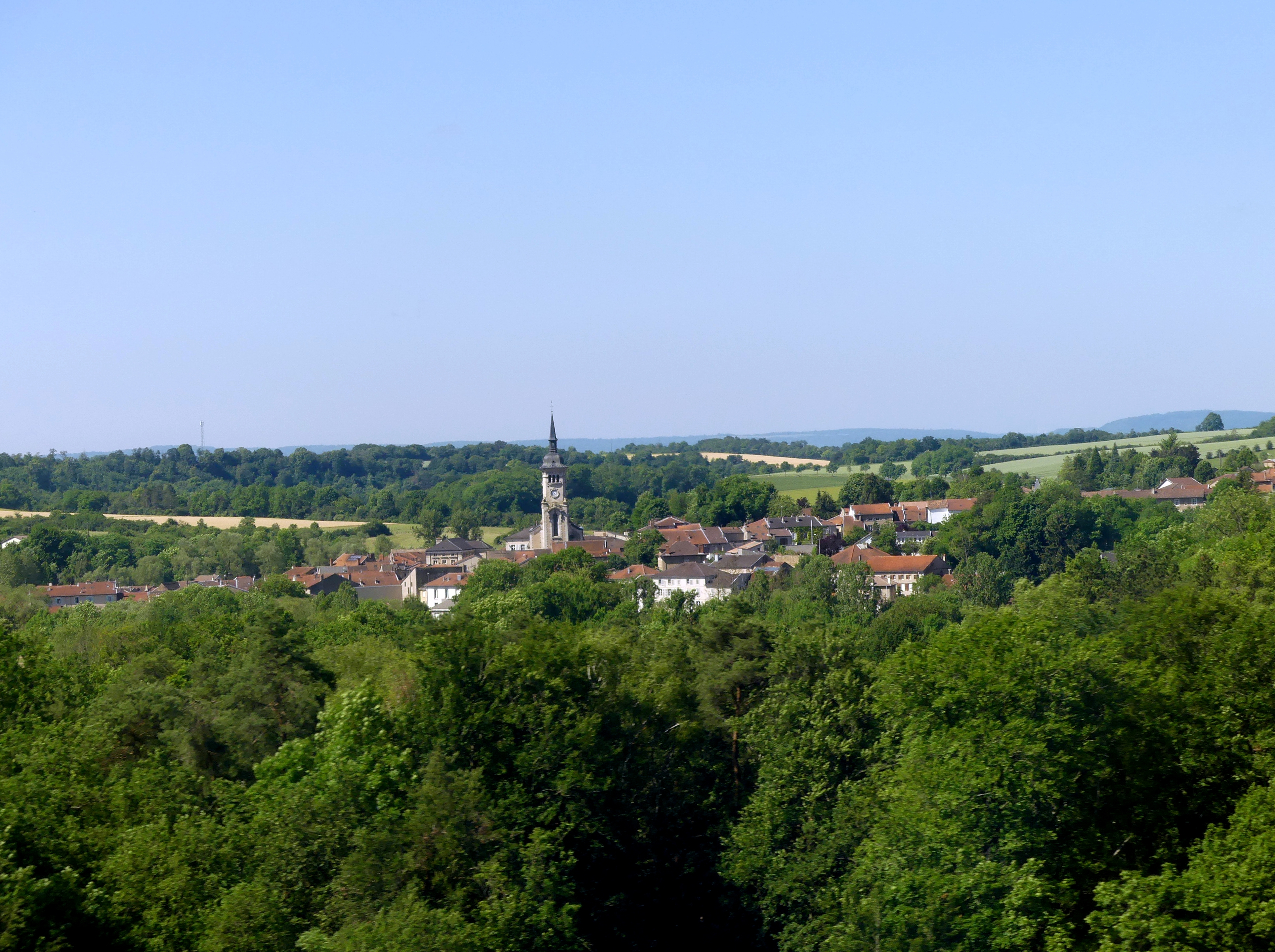 Sight, from the high speed railway line from Paris to Strasbourg, of Thiaucourt-Regniéville village, in Meurthe-et-Moselle, France.